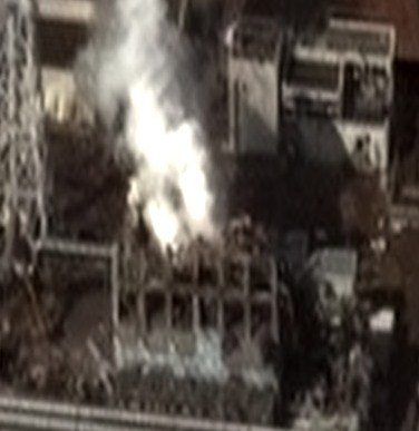 Reactor unit 3 at the Fukushima I Nuclear Power Plant after the 2011 Tōhoku earthquake and tsunami